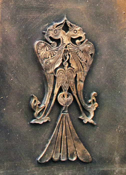 A relief of Seljukian Eagle on the Monument of Eskişehir.